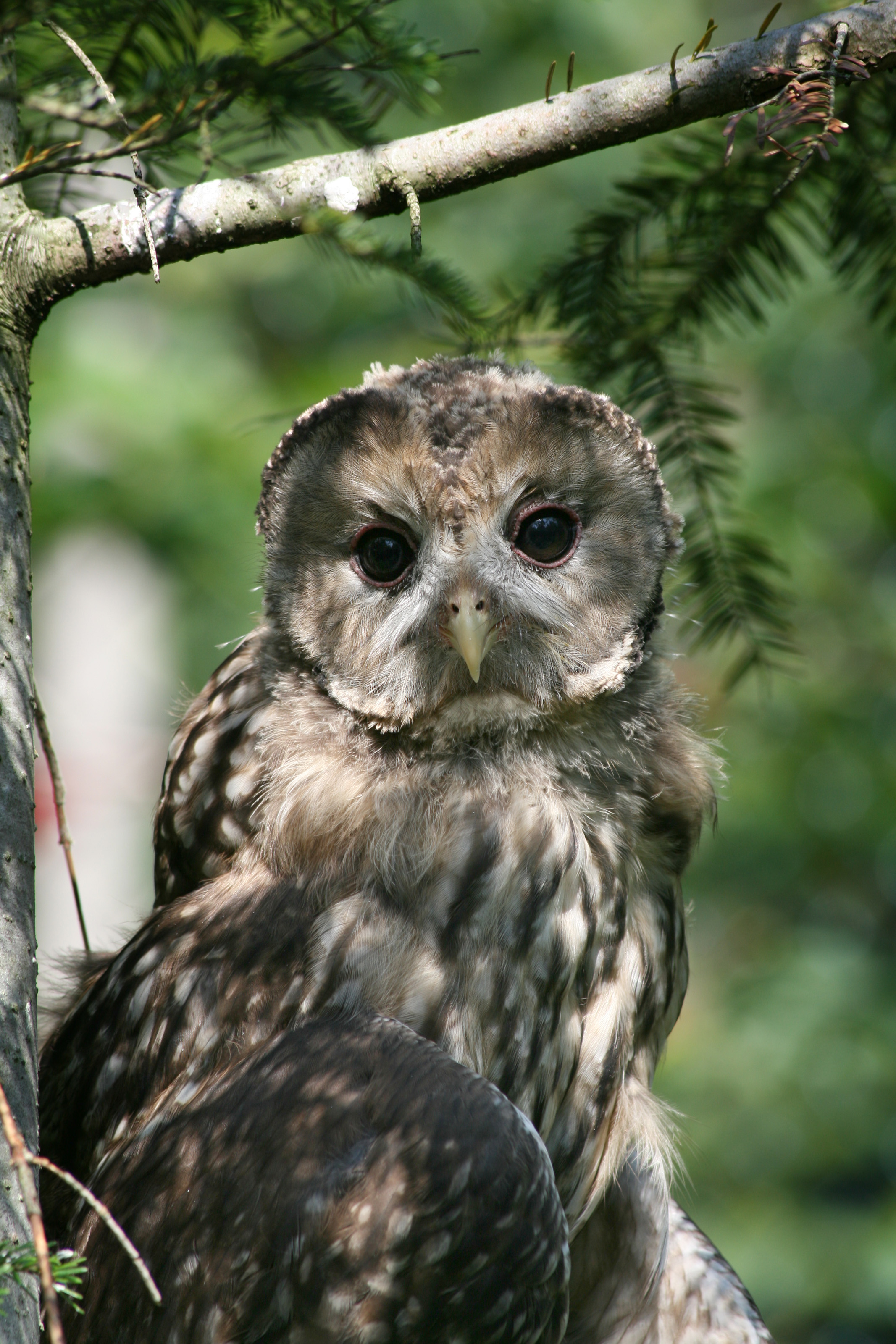 Description: The Ural Owl (Strix uralensis. This species is a part of the larger grouping of owls known as typical owls, Strigidae, which contains most species of owl.